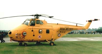 Westland Whirlwind HAR10 at RAF Finningley open day 1985